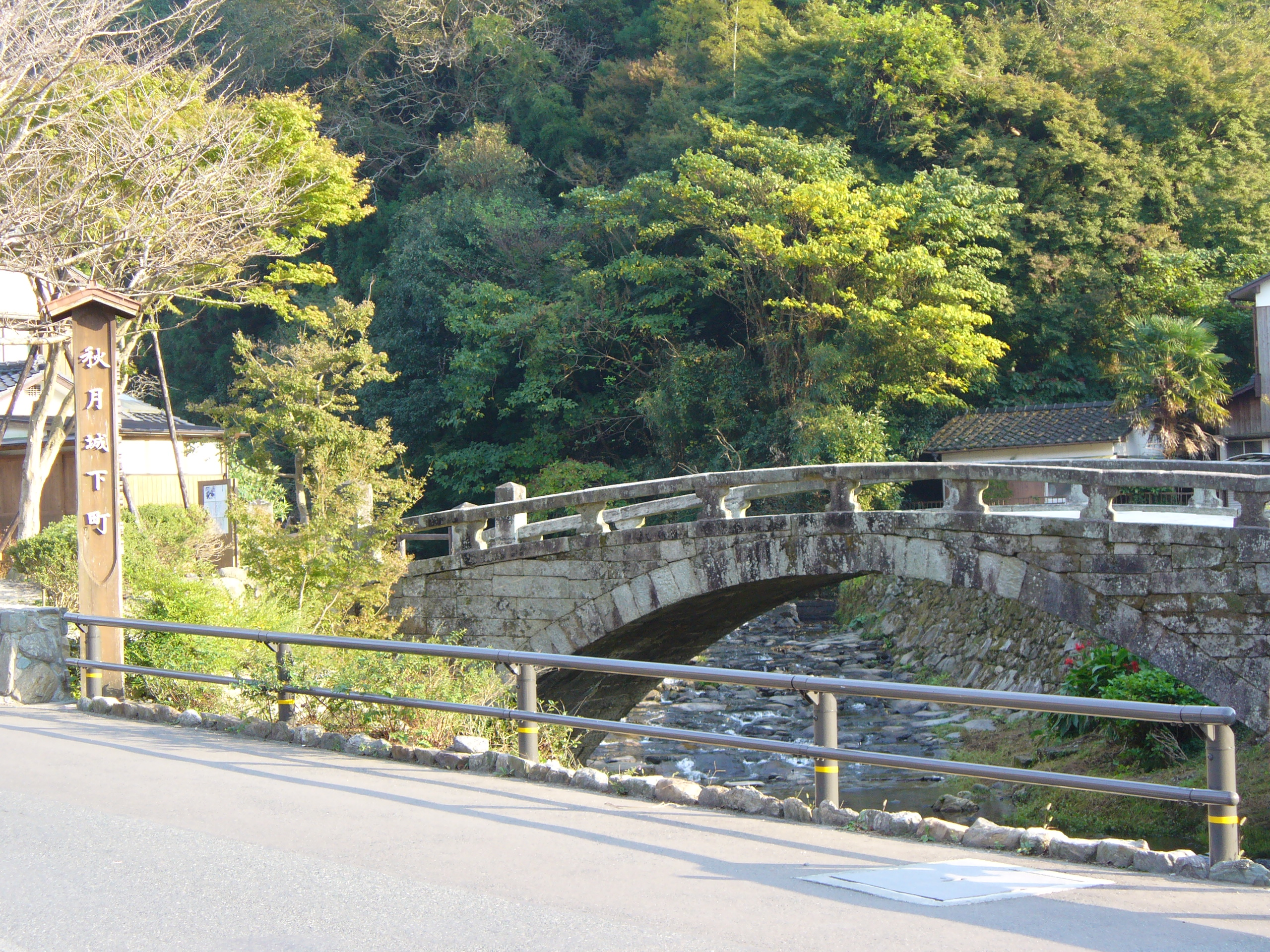 The bridge of stone construction with fixed-arch architecture in Asakura City, Fukuoka Pref., Japan. It was constructed in 1810(the Edo period).